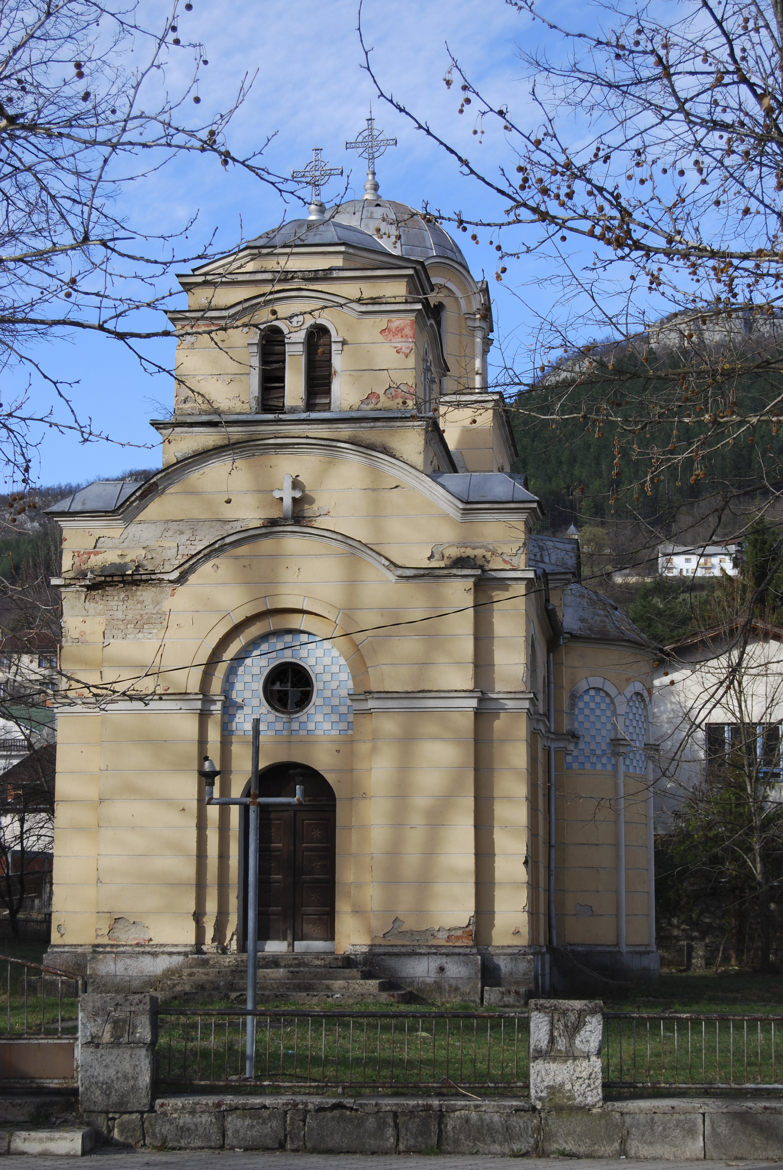 Kljuc, Bosnia i Hercegovina March 2008. Orthodox church.